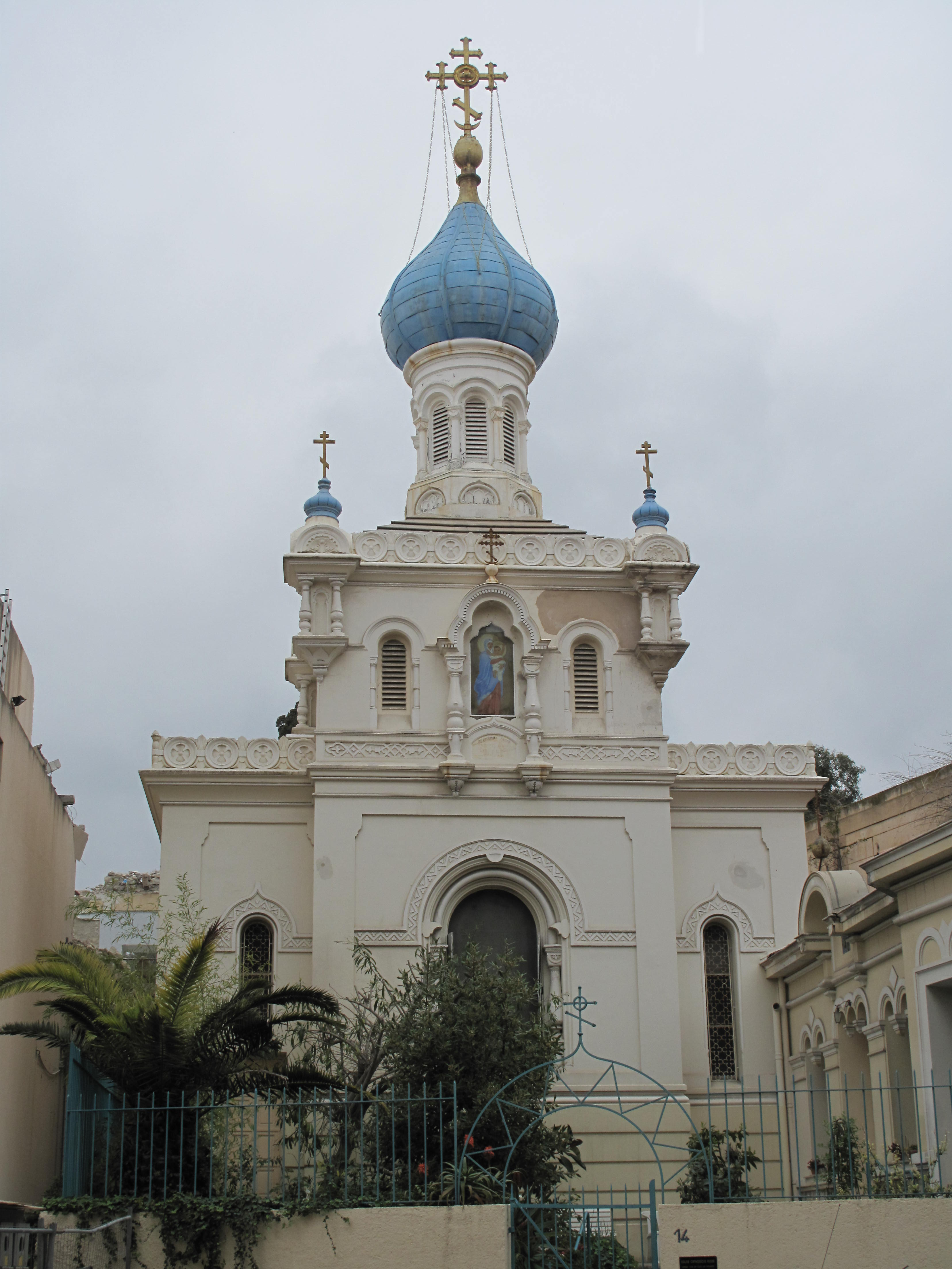 Orthodox church in Menton, France